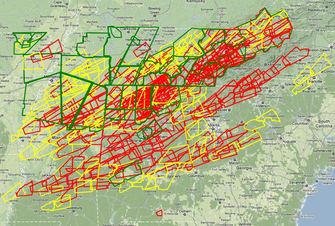 Composite map of all Tornado (red), Severe Thunderstorm (yellow) and Flood warnings (green) issued throughout the major tornado outbreak on April 27, 2011.